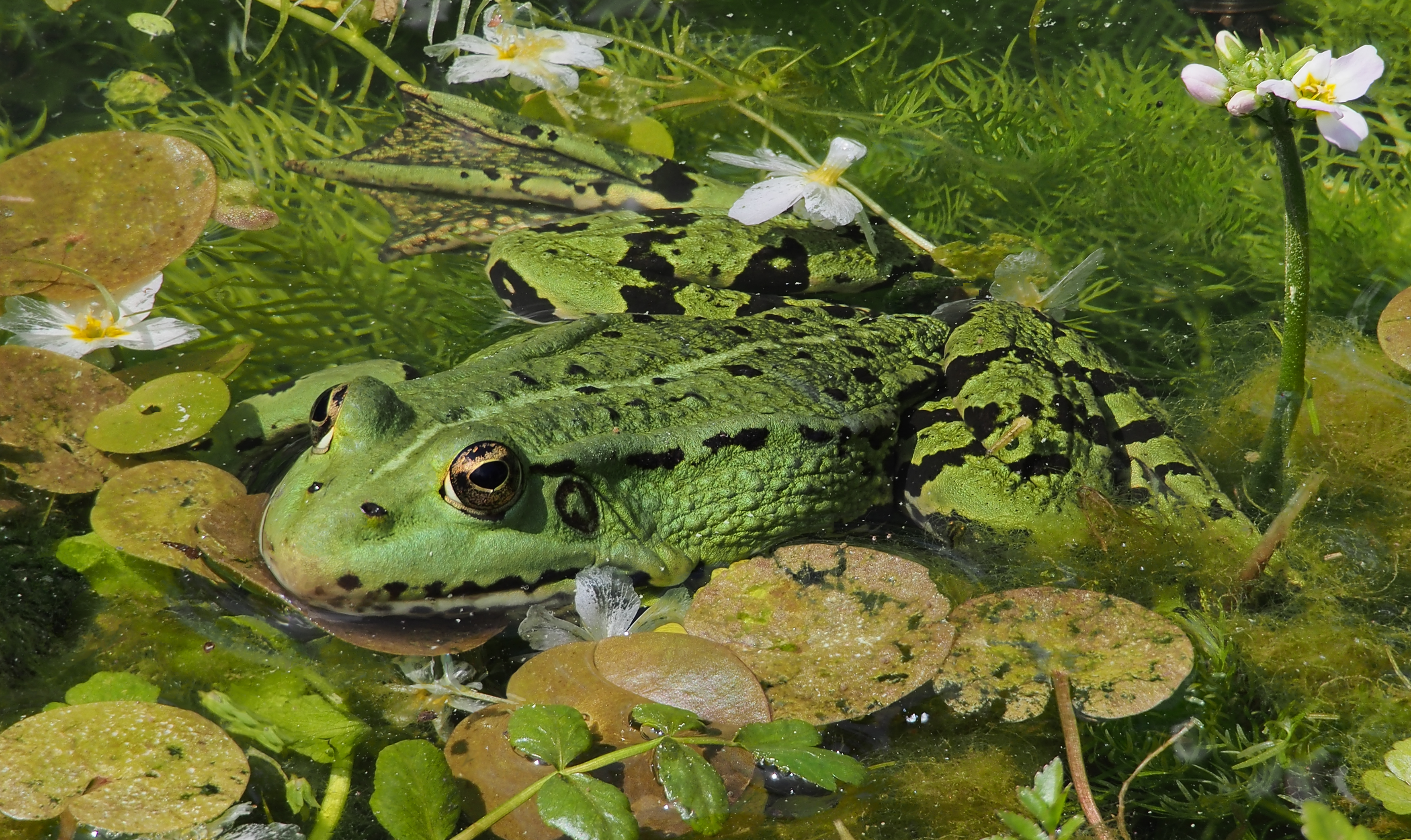 Edible frog (Pelophylax kl. esculentus) in a Ljubljana botanical garden swamp, Slovenia.